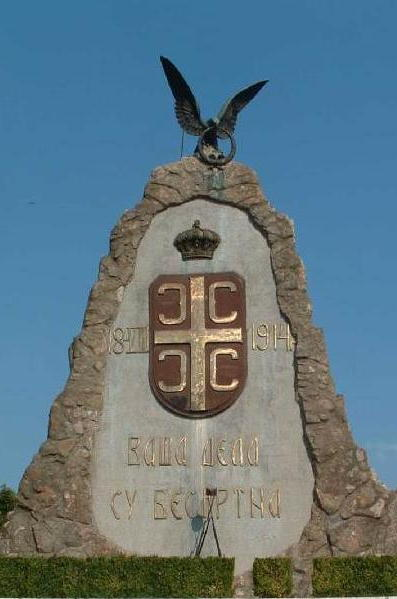 Spomenik palim junacima Cerske Bitke Serbian law from 2009 allows 2D reproductions of permanently publicly displayed works, i. e. the full Freedom of Panorama (translation of relevant Article 51): Article 51: It is permitted to make two-dimensional reproductions of works permanently located on streets, squares or other open places accessible to public, and to distribute such reproductions, without author's permission or paying author's fee. Copyright Law from 2009 See Commons:Freedom of Panorama#Serbia for more information. English | српски / srpski | +/−